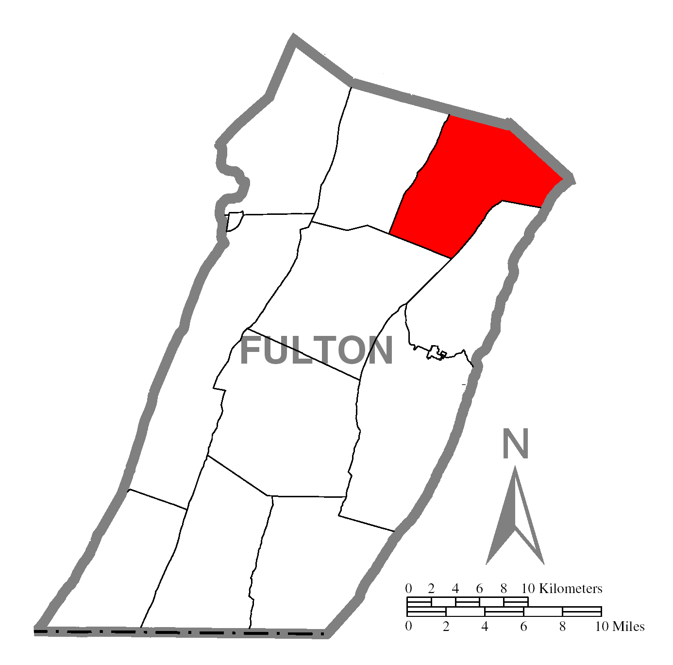 A map of Fulton County showing Dublin Township, Pennsylvania (alternate) highlighted on the map.